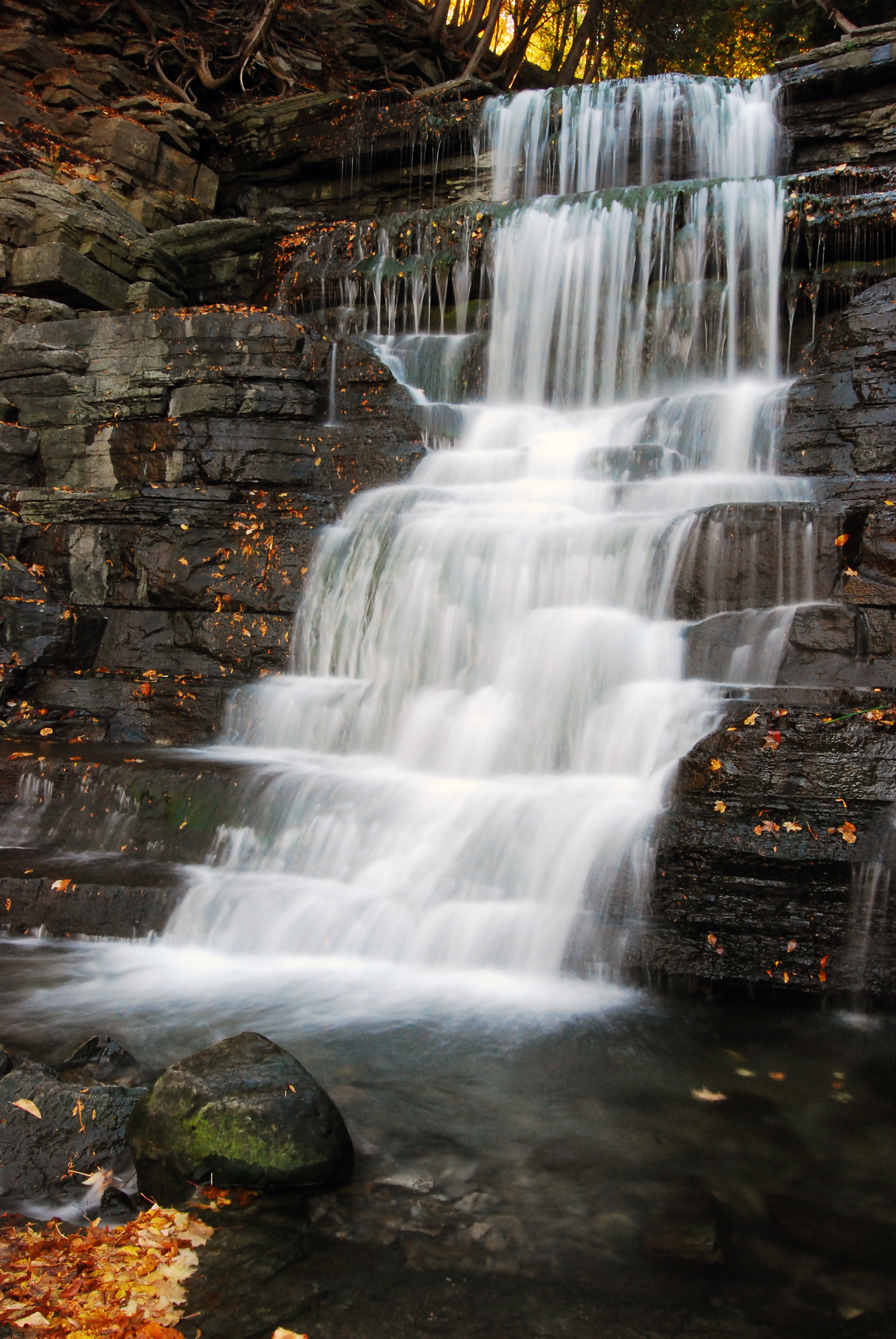 The Princess Louise Falls (more correctly Taylor Falls) on Taylor Creek, Orleans, Ottawa, Canada